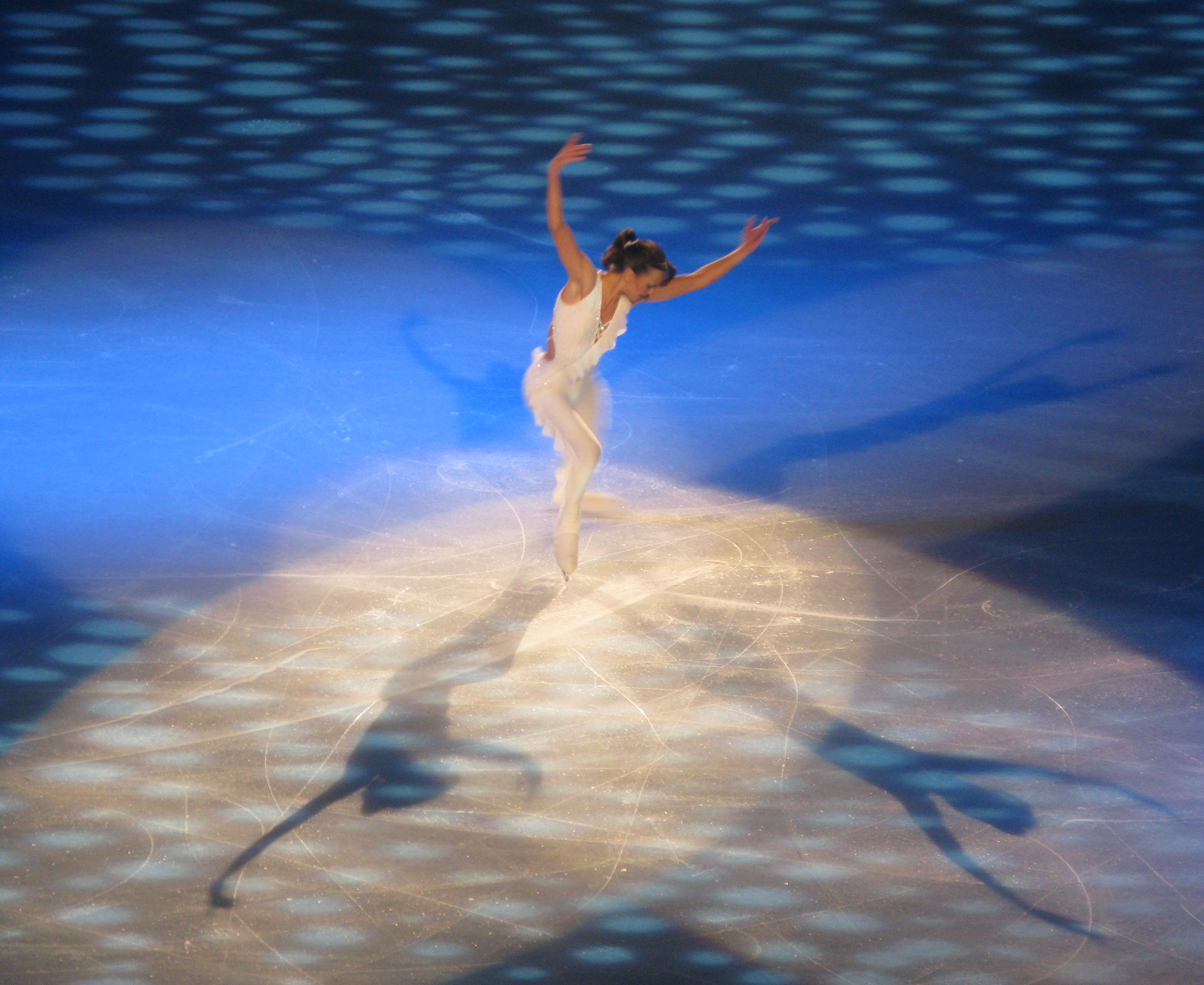 Skater Marie-Pierre Leray at the figure skating gala exhibition of 2013 Trophée Éric Bompard in Bercy, Paris.